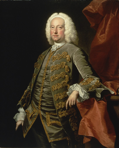 Portrait of Charles Jennens